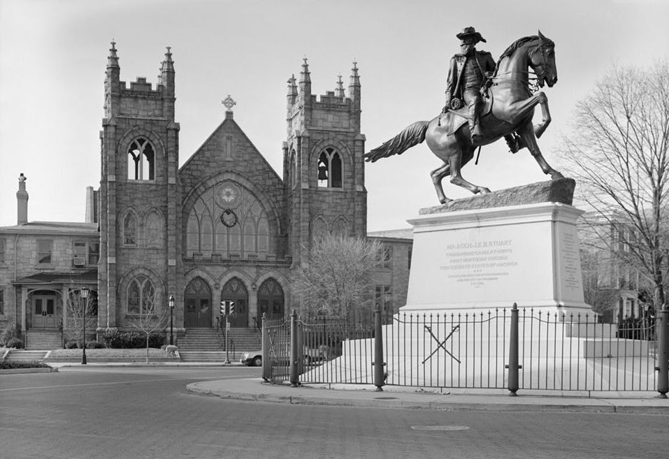 Looking southwest at Stuart Monument and First English Lutheran Church, 1600 Block Monument Avenue, Richmond, Independent City, VA .